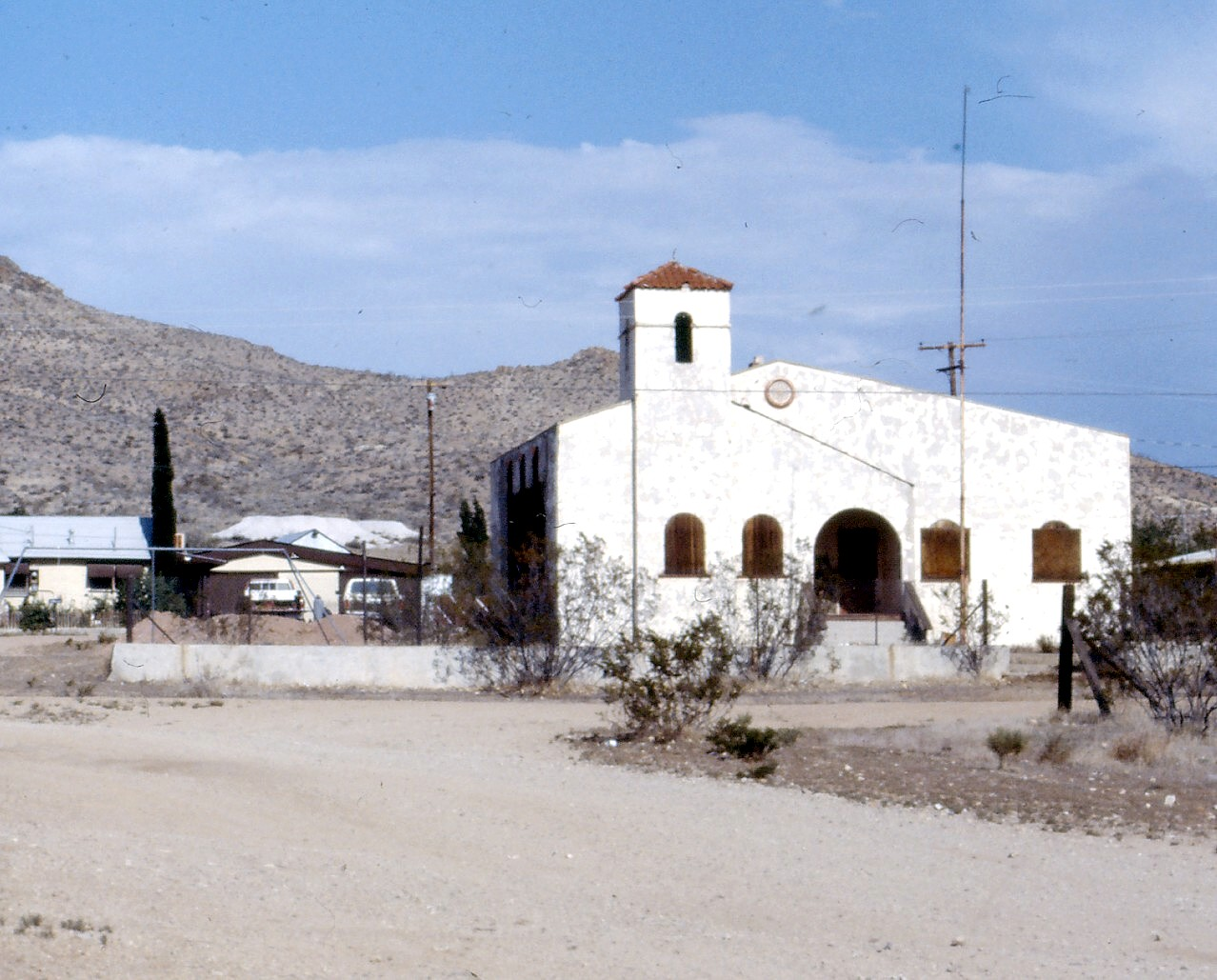 (1 in a multiple picture set) This old church is still in good shape, though abandoned in Red Mountain, CA, in the Rand Mining District off Hwy 395 northwest of Barstow.